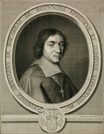 Jean-Armand de Rotondis de Biscarras († 1702), bishop of Digne (1668–1669), Lodève (1669–1671), and Béziers (1671–1702); engraving by Jean Lenfant, 1670